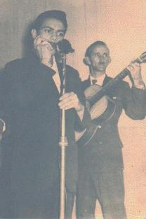 aNGELO dOS sANTOS ON THE mOARCI fRANCO SHOW, 1966, rIO DE jANEIRO, tv TUPI.